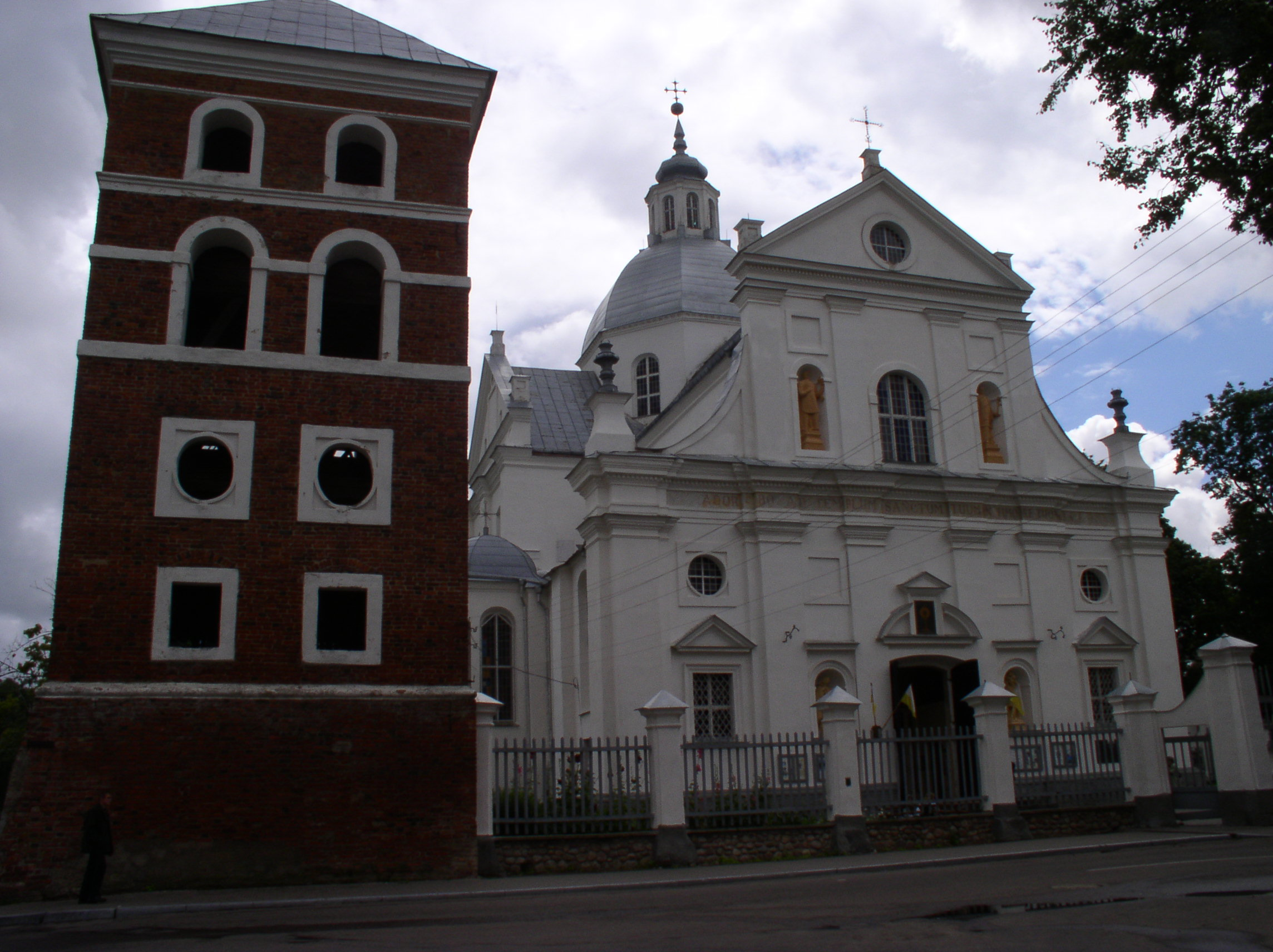 Church of the Corpus Christi and castle tower. Niasvizh, Belarus.